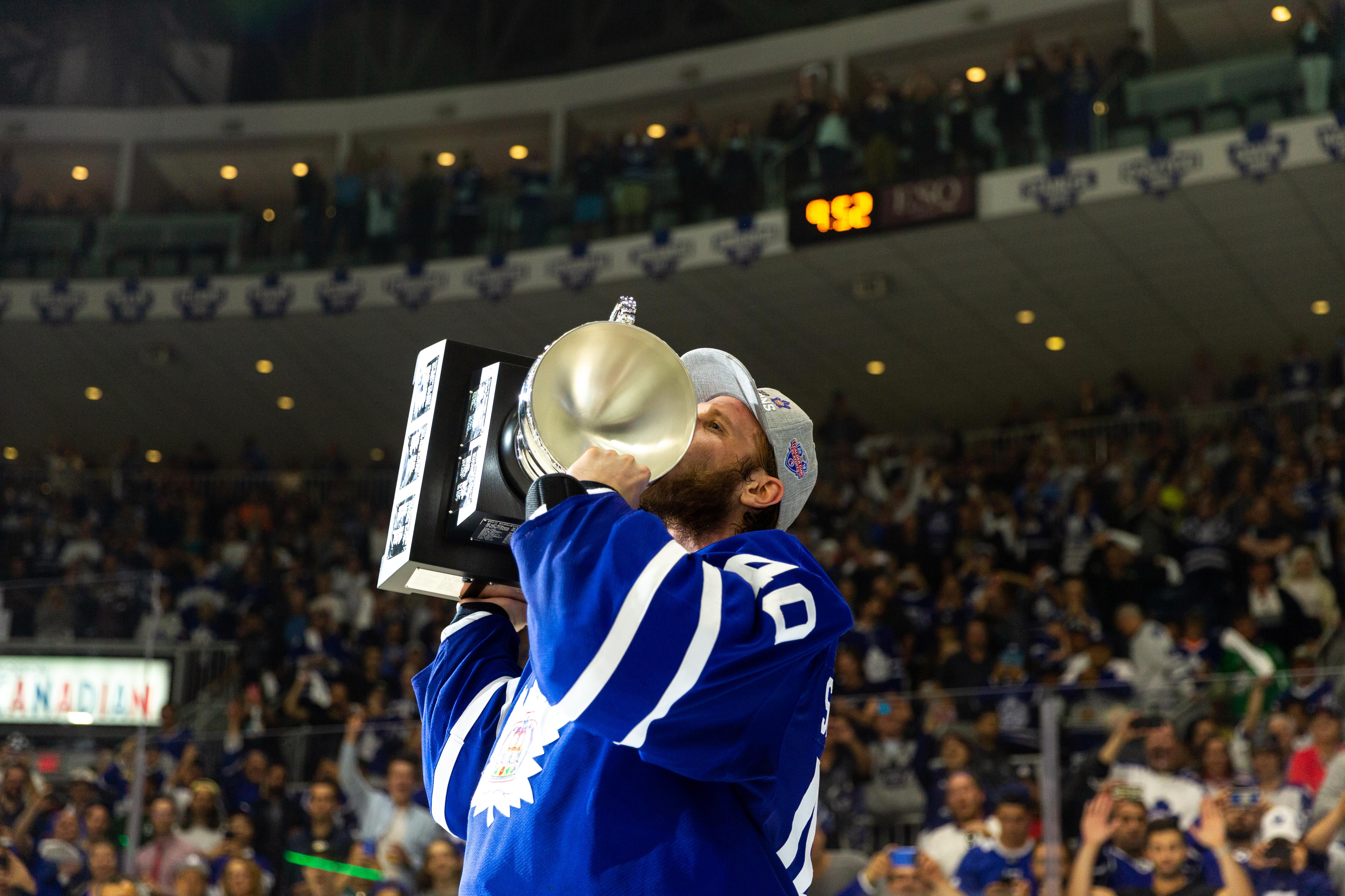 Photo: Thomas Skrlj/AHL